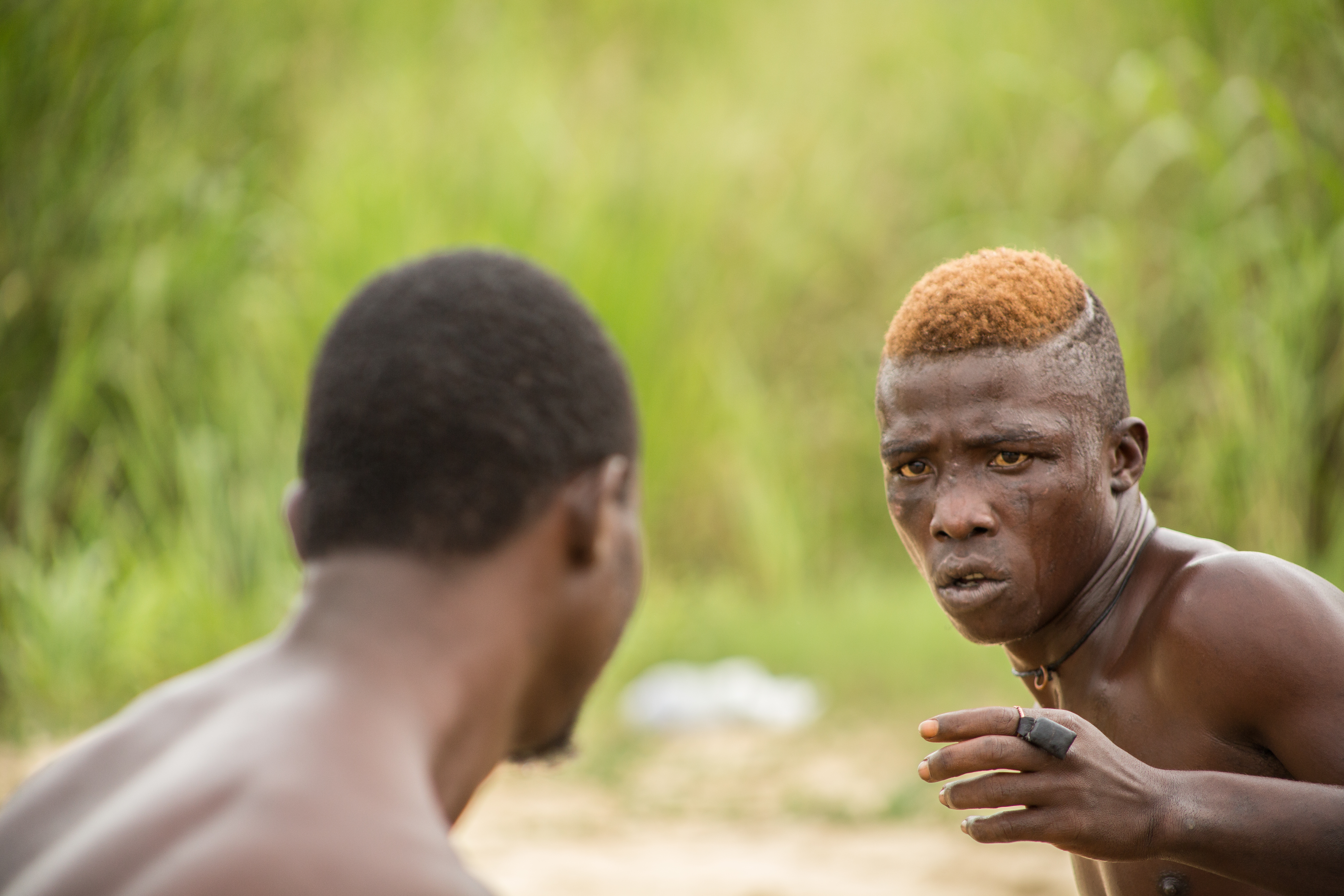 Dambe Fighters Waiting For The Right Moment To Strike This is an image of "African people at work" from Nigeria